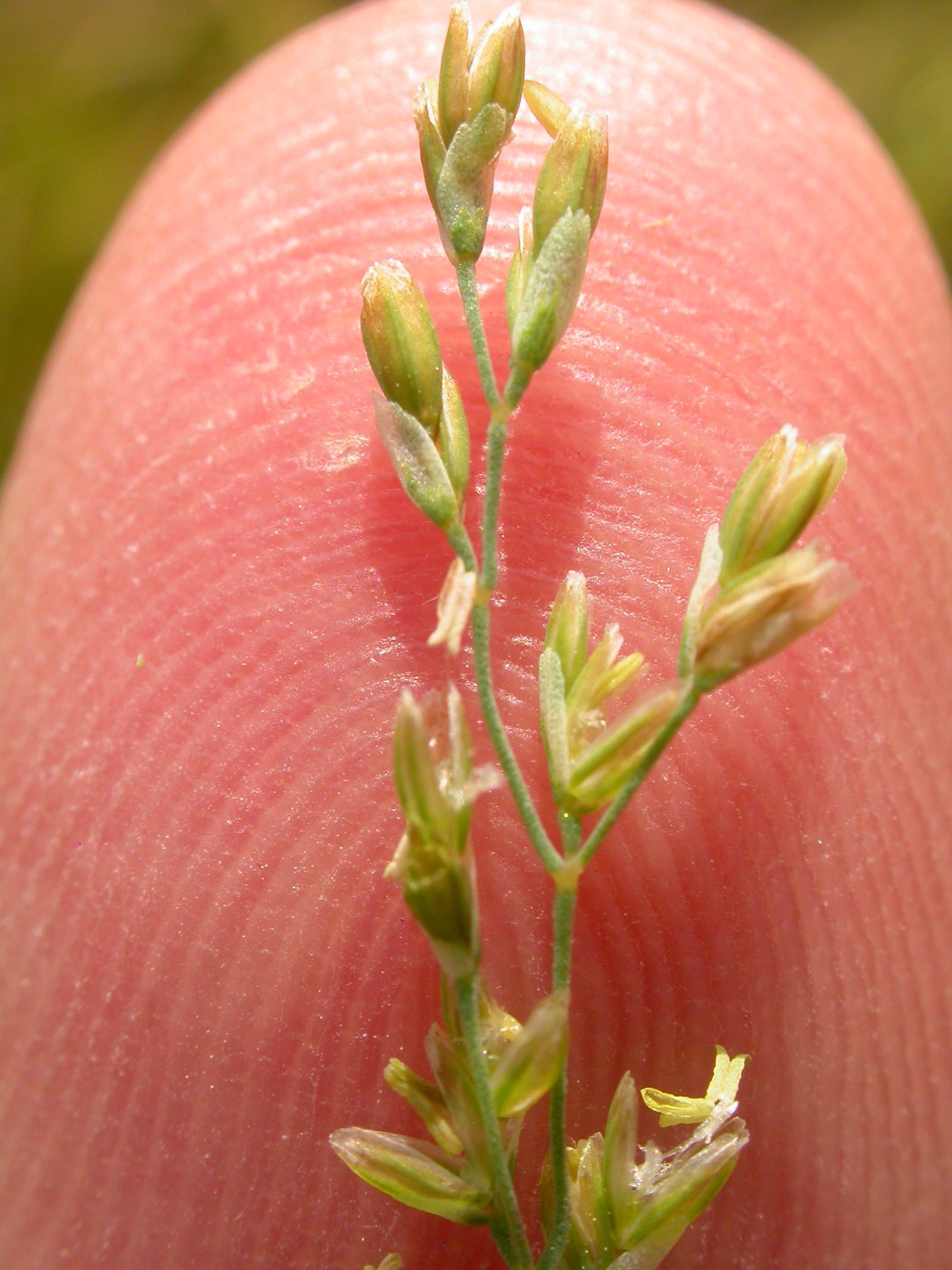 The spikelets comprise exactly two florets with two small translucent glumes and light brownish lemmas with three prominent green veins.